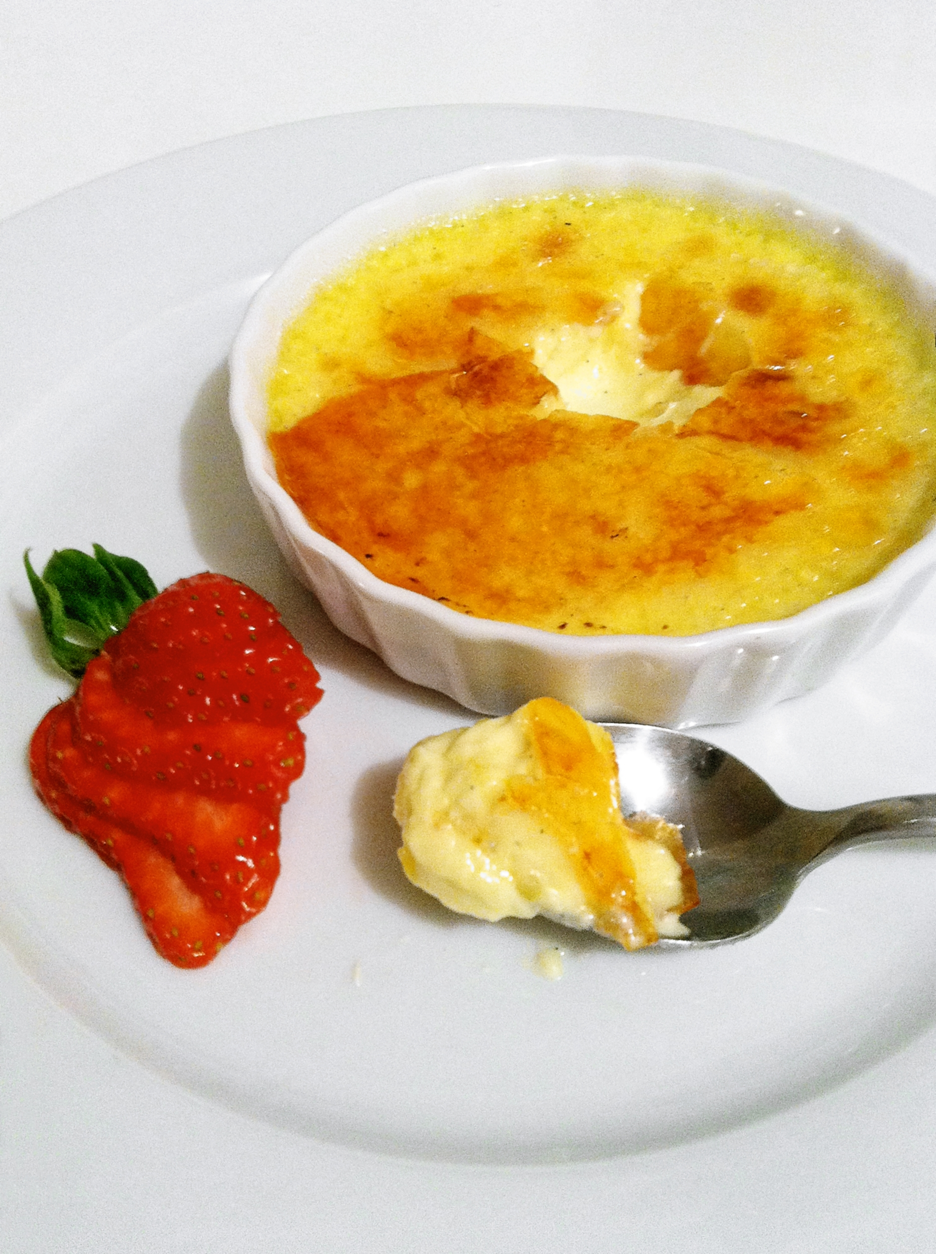 Vanilla creme brulee and a single strawberry. Prepared, photographed and consumed by me.